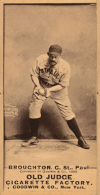 Cal Broughton